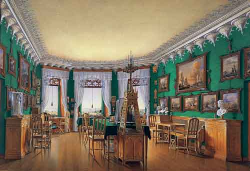 Edward Hau. Office Nikolay I in the Cottage. 1855